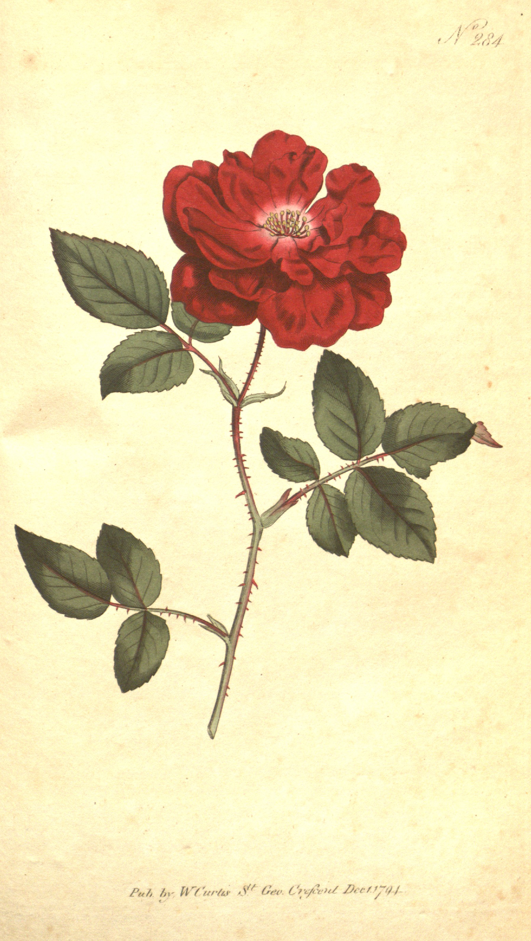 Rosa chinensis var. chinensis, as Rosa semperflorens.